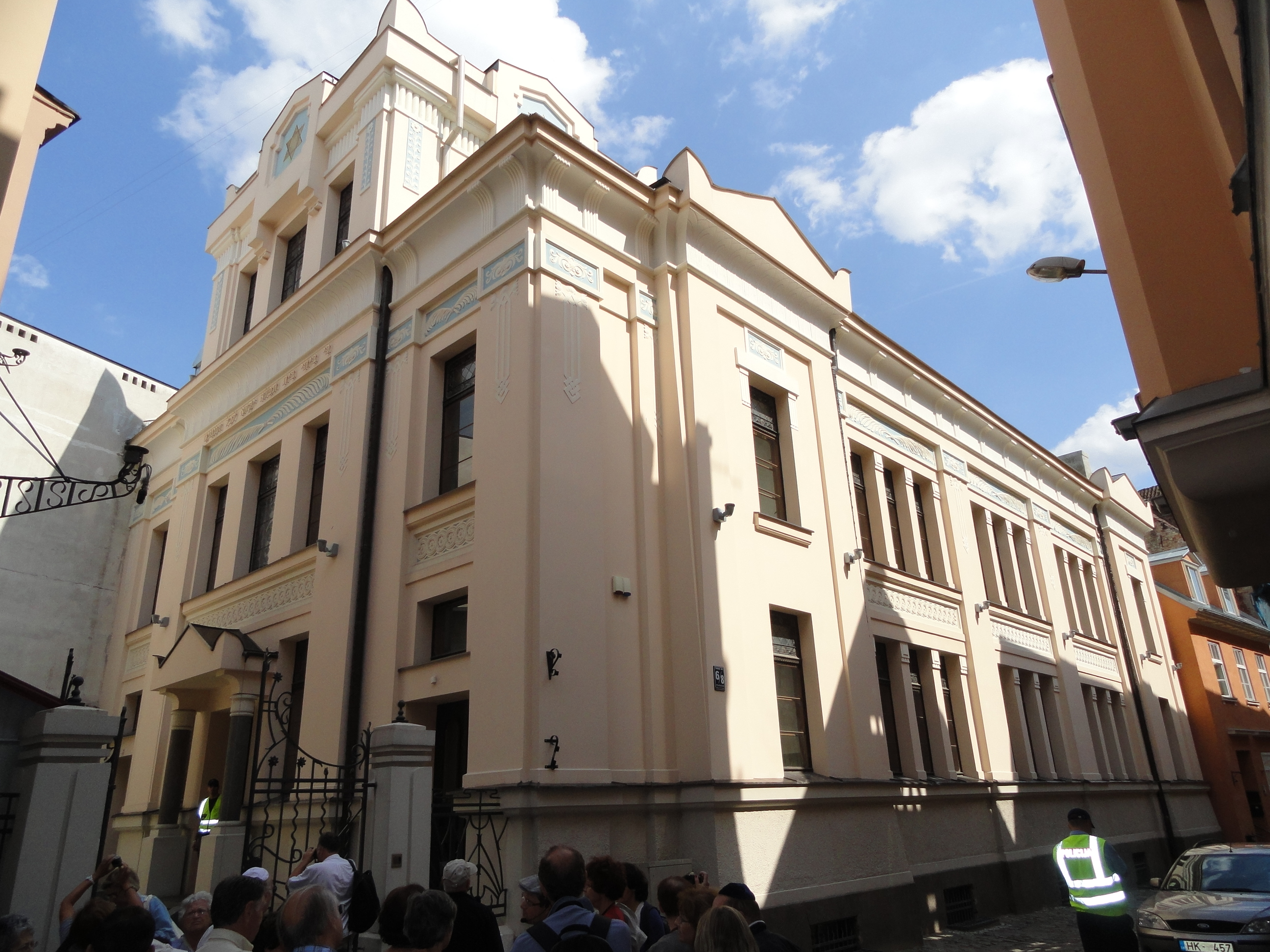 Synagogue of Riga (Litvia). General view from the street